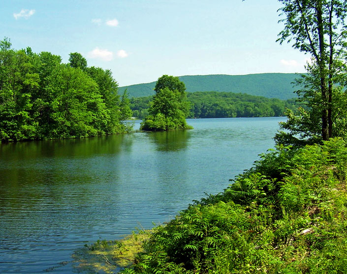 Photographed by Daniel Case 2007-06-07